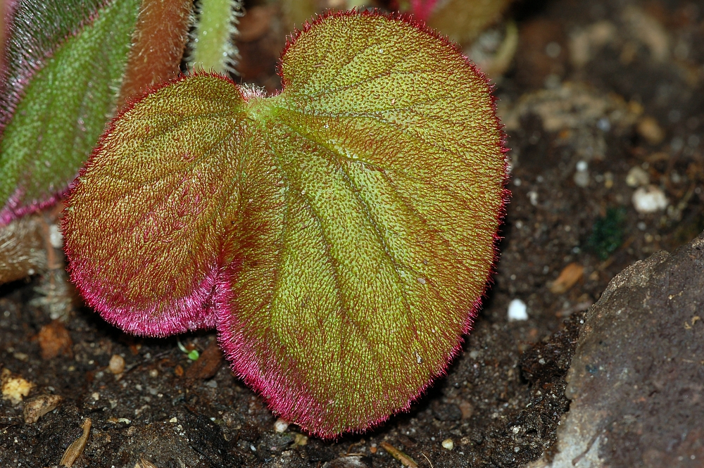 Leaves of Begonia annulata, known from India, photographed in the Botanical Garden Berlin